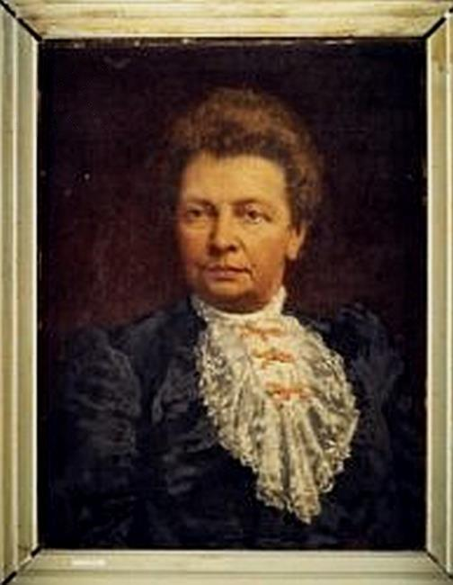 Portrait of Gerarda Henriette Matthijssen (1830-1907) by an anonymous painter (1890)